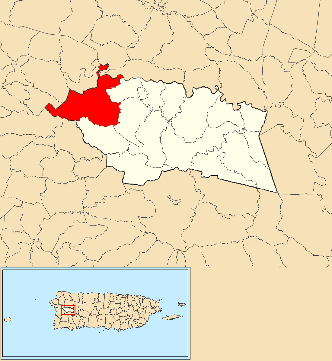 Anones, Las Marías, Puerto Rico locator map